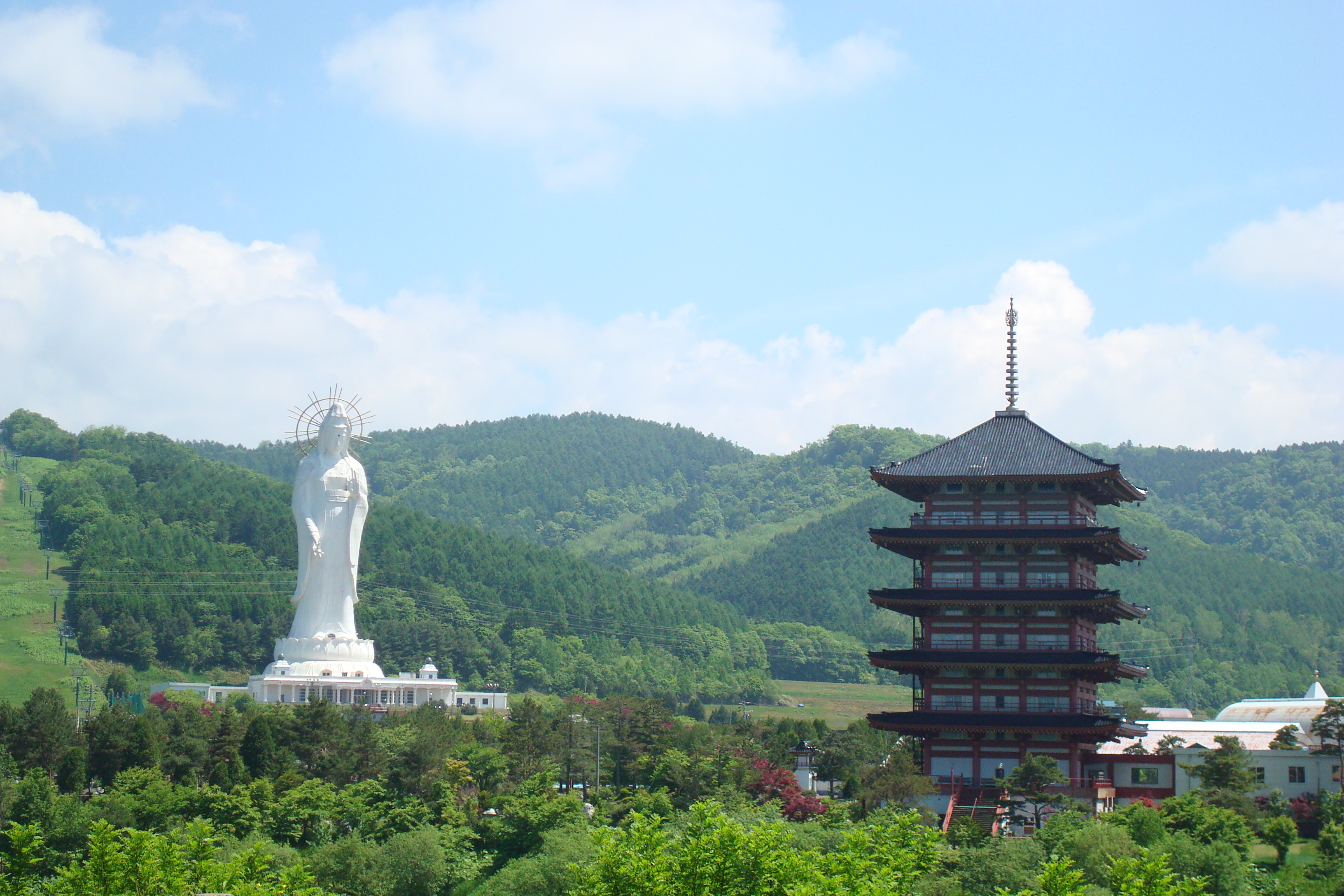 Hokkaido Dai Kannon in Ashibetsu city, Hokkaido, Japan